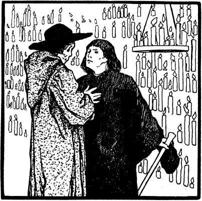 Illustration by Otto Ubbelohde to the fairy tale Godfather Death